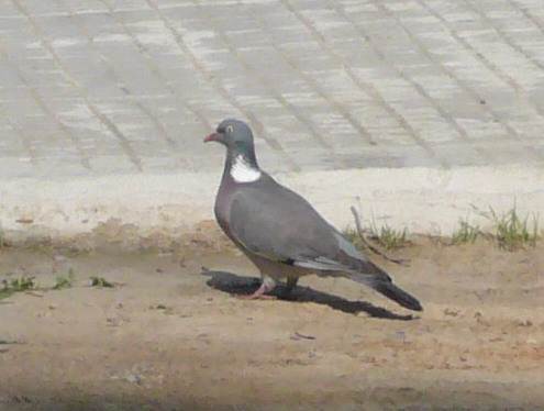 Columba palumbus in la Floresta (Sant Cugat del Vallès, Vallès Occidental, Catalonia).